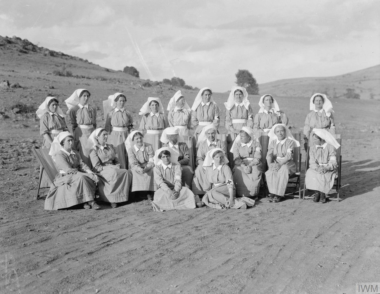 Women at work during the First World War A group photograph of women of the Sixth (American) Unit of the Scottish Women's Hospital in the sunshine at Ostrovo. According to the original caption, the CMO (Chief Medical Officer) is Dr Agnes Bennett and many of the staff are Australian.